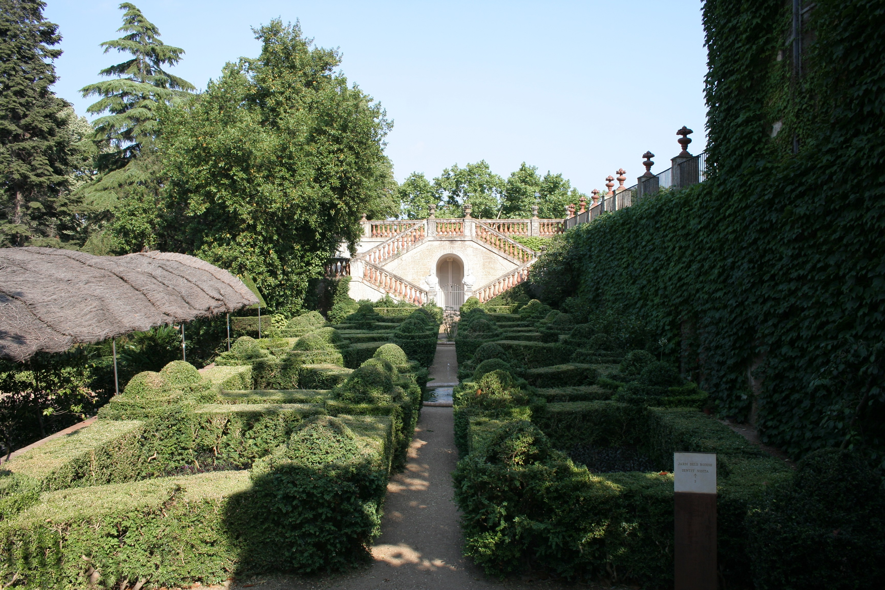 Topiary garden at Parc del Laberint d'Horta, Barcelona.